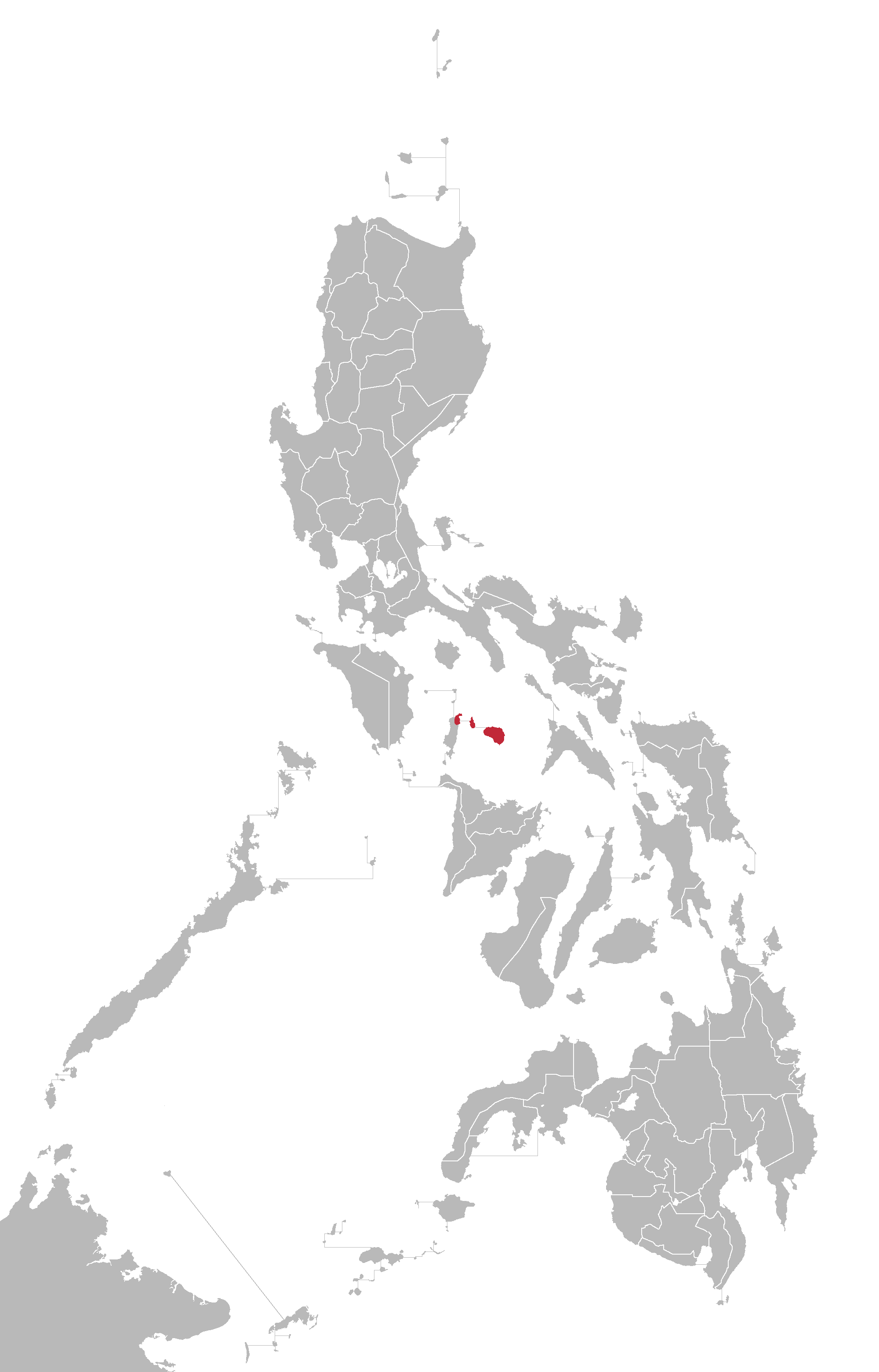 Romblomanon language map based on Ethnologue maps